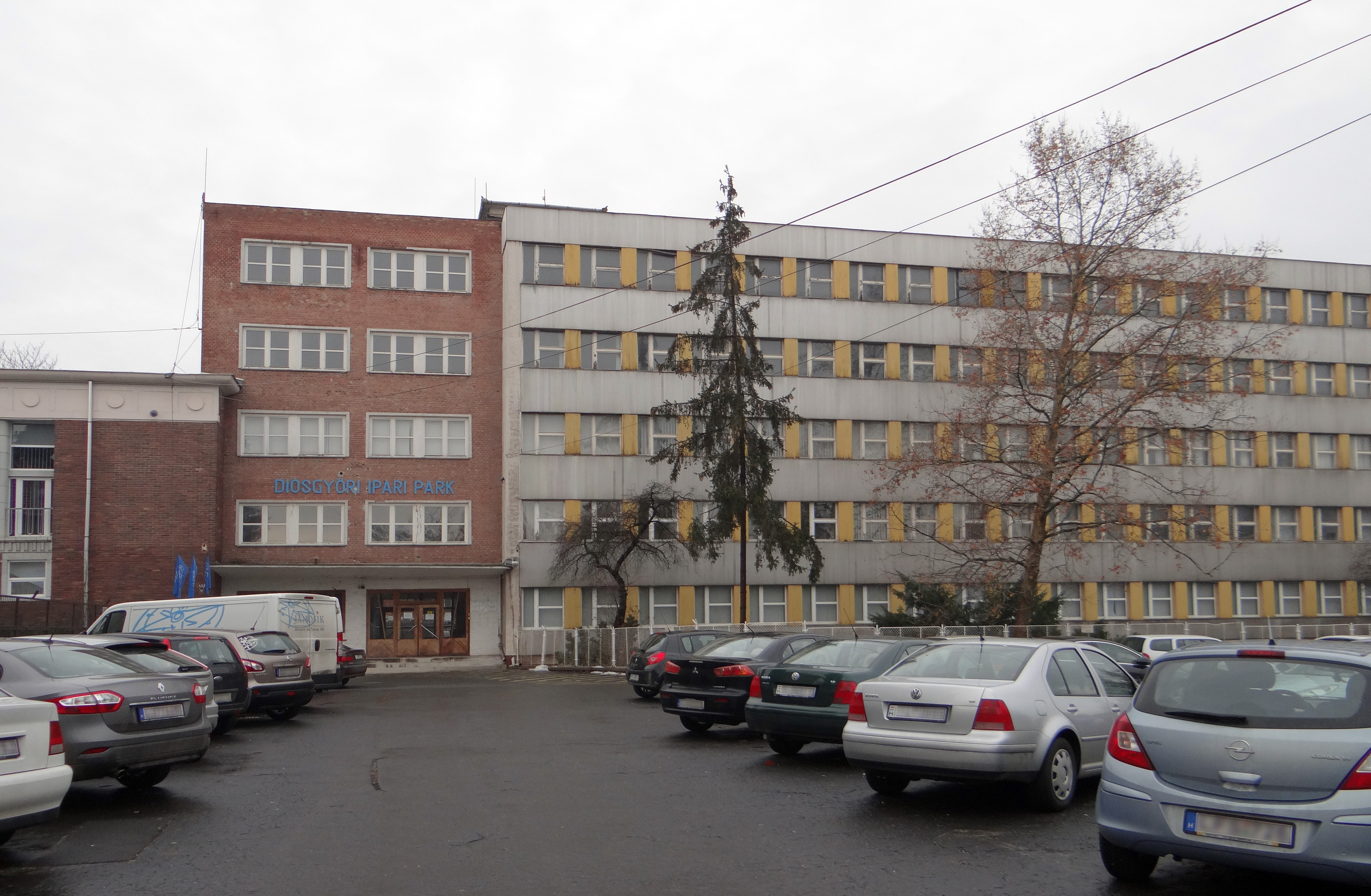 The Diósgyőr Machine Works office building, Miskolc, Hungary